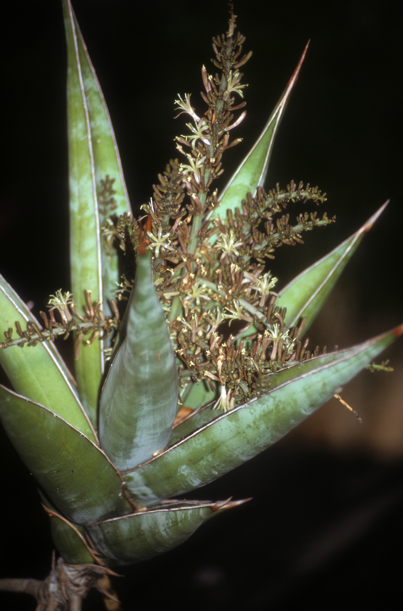 South Miami, Florida, USA. Night-blooming.